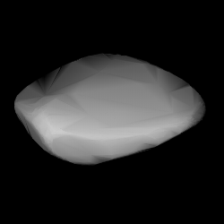 3D convex shape model of 1294 Antwerpia, computed using light curve inversion techniques. J. Hanuš, J. Ďurech, M. Brož, B. D. Warner (June 2011). "A study of asteroid pole-latitude distribution based on an extended set of shape models derived by the lightcurve inversion method". Astronomy and Astrophysics 530: A134. ISSN 0004-6361. arXiv